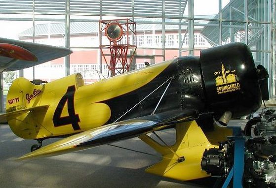 GeeBee Racer Z40 "City of Springfield" at the Seattle Air Museum